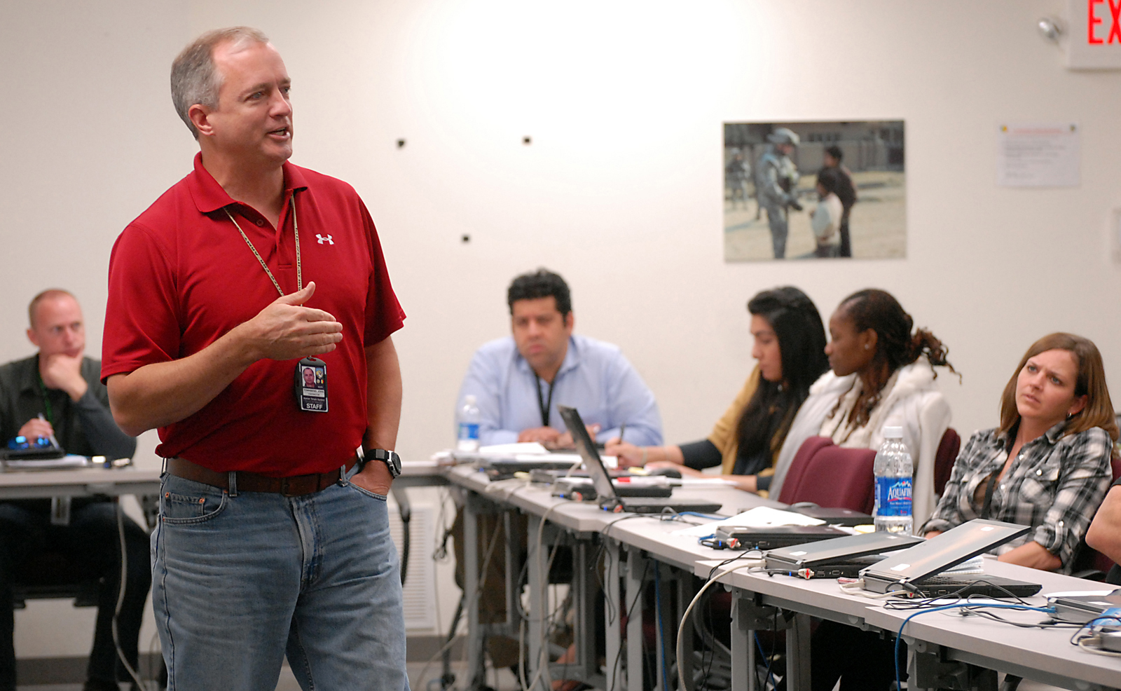 Source: US Army URL: This image is a public domain resource